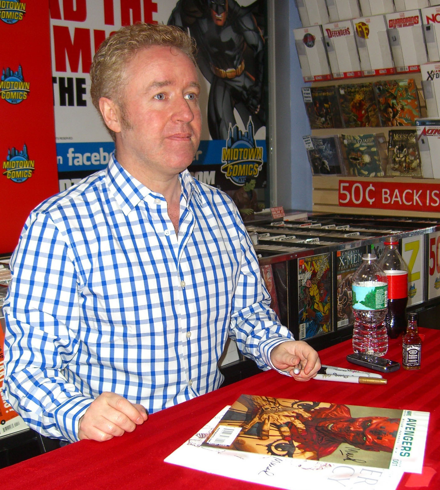 Scottish comics writer Mark Millar at an April 25, 2013 signing at Midtown Comics in Manhattan for his miniseries, Jupiter's Legacy, which debuted the day prior. In the photo, Millar is signing a copy of one of his previous works, Ultimate Comics: Avengers. This photo was created by Luigi Novi. It is not in the public domain, and use of this file outside of the licensing terms is a copyright violation.